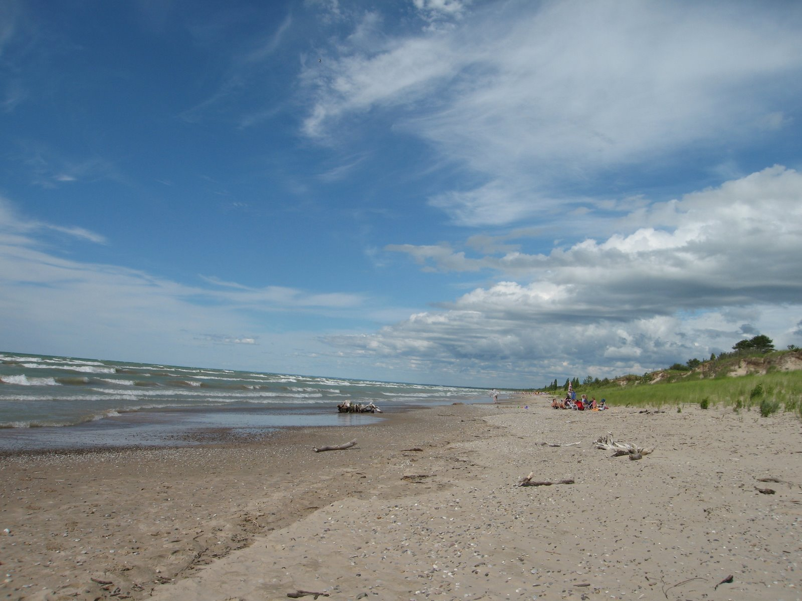 Pinery Provincial Park - Dunes Beach